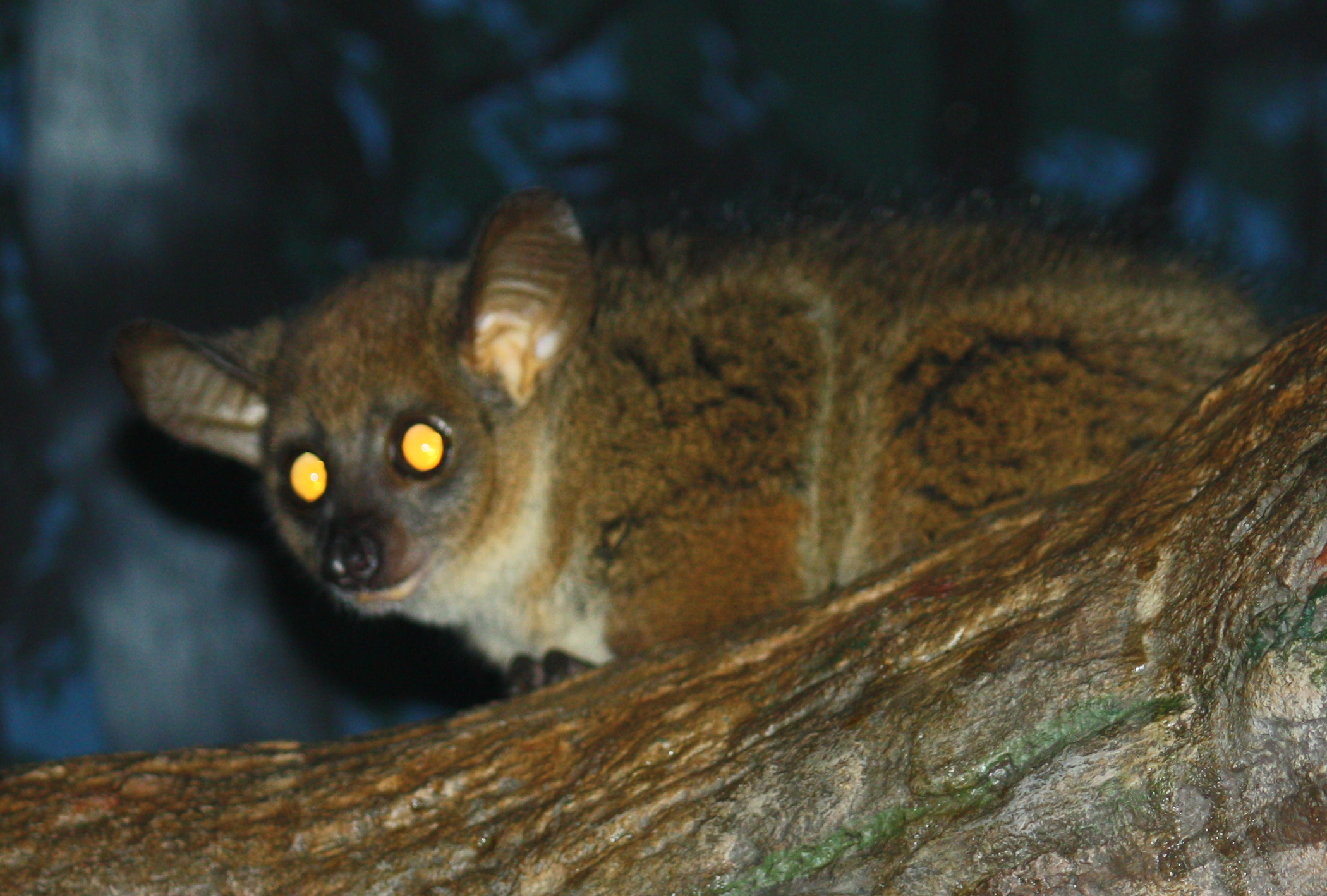 Garnetts Galago Otolemur garnettii at Cincinnati Zoo